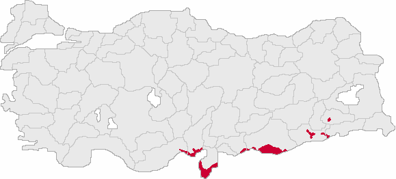 The settlement area of the Arabs in the south and southeast of Turkey